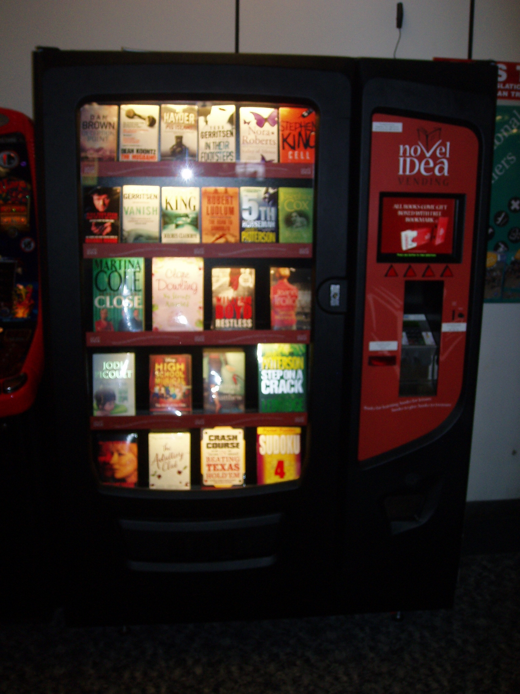 Book vending machine at Gatwick Airport, London, UK.